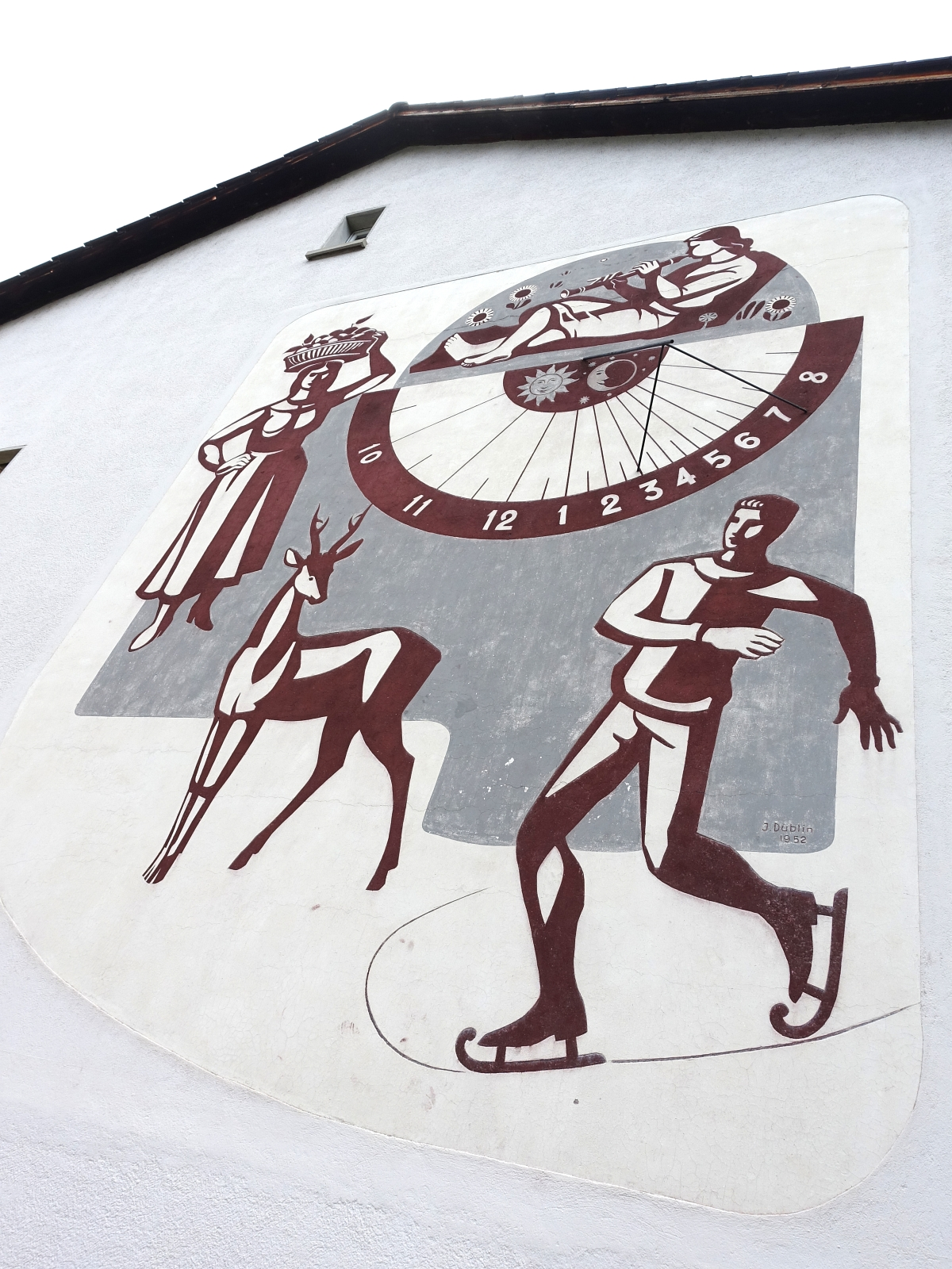 Sgraffito, 350x520 cm, Sonnenuhr, 1952, Mühlemattschulhaus, Liestal von Jacques Düblin (1901-1978) Kunstmaler